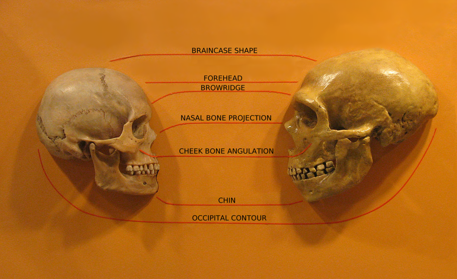 Comparison of Modern Human and Neanderthal skulls from the Cleveland Museum of Natural History with English captions. Description (from up to down): Braincase shape, Forehead, Browridge, Nasal bone projection, Cheek bone angulation, Chin, Occipital contour.